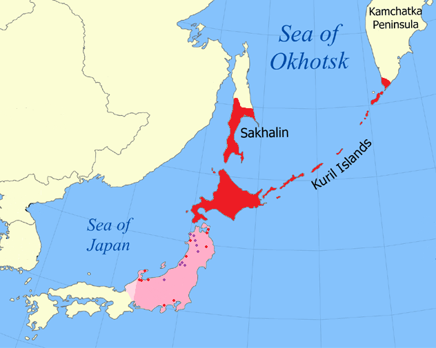 Historically attested range of the Ainu (red) and suspected former range (pink) based on toponymic evidence (red dots), Matagi villages (purple), and Japanese isoglosses (western limit)